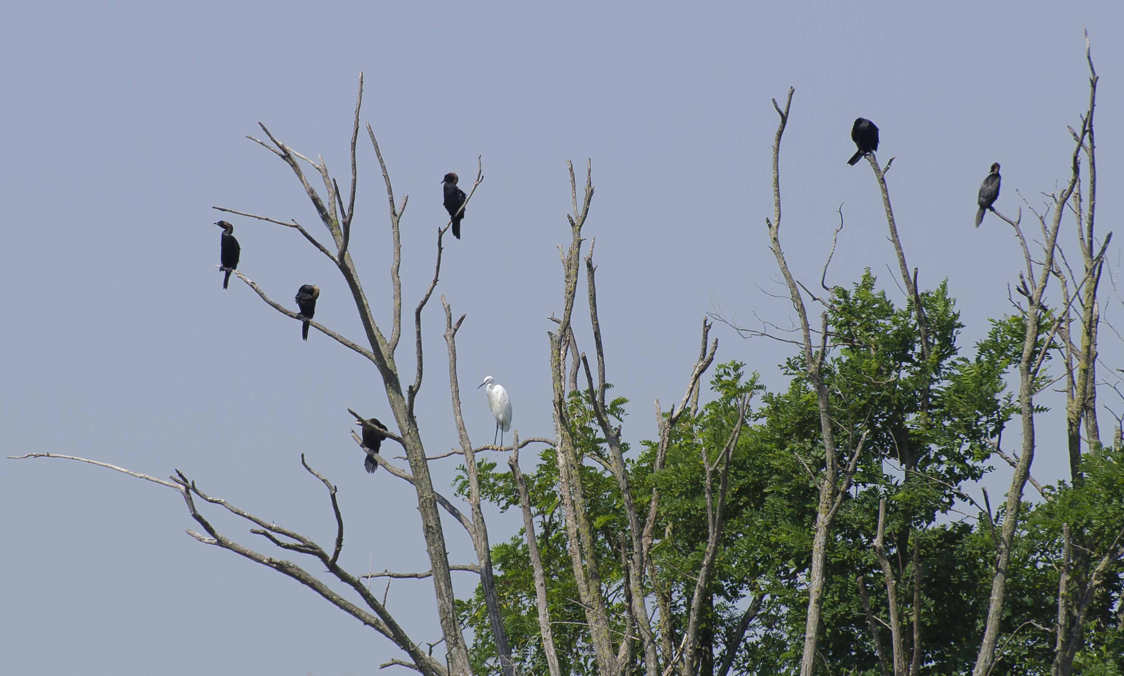 Pygmy cormorants (Phalacrocorax pygmeus) and little egret (Egretta garzetta) in the salt marshes of the Venetian Lagoon, Italy. Thanks to the members of Wikipedia:RBIO/B for help with the identification.